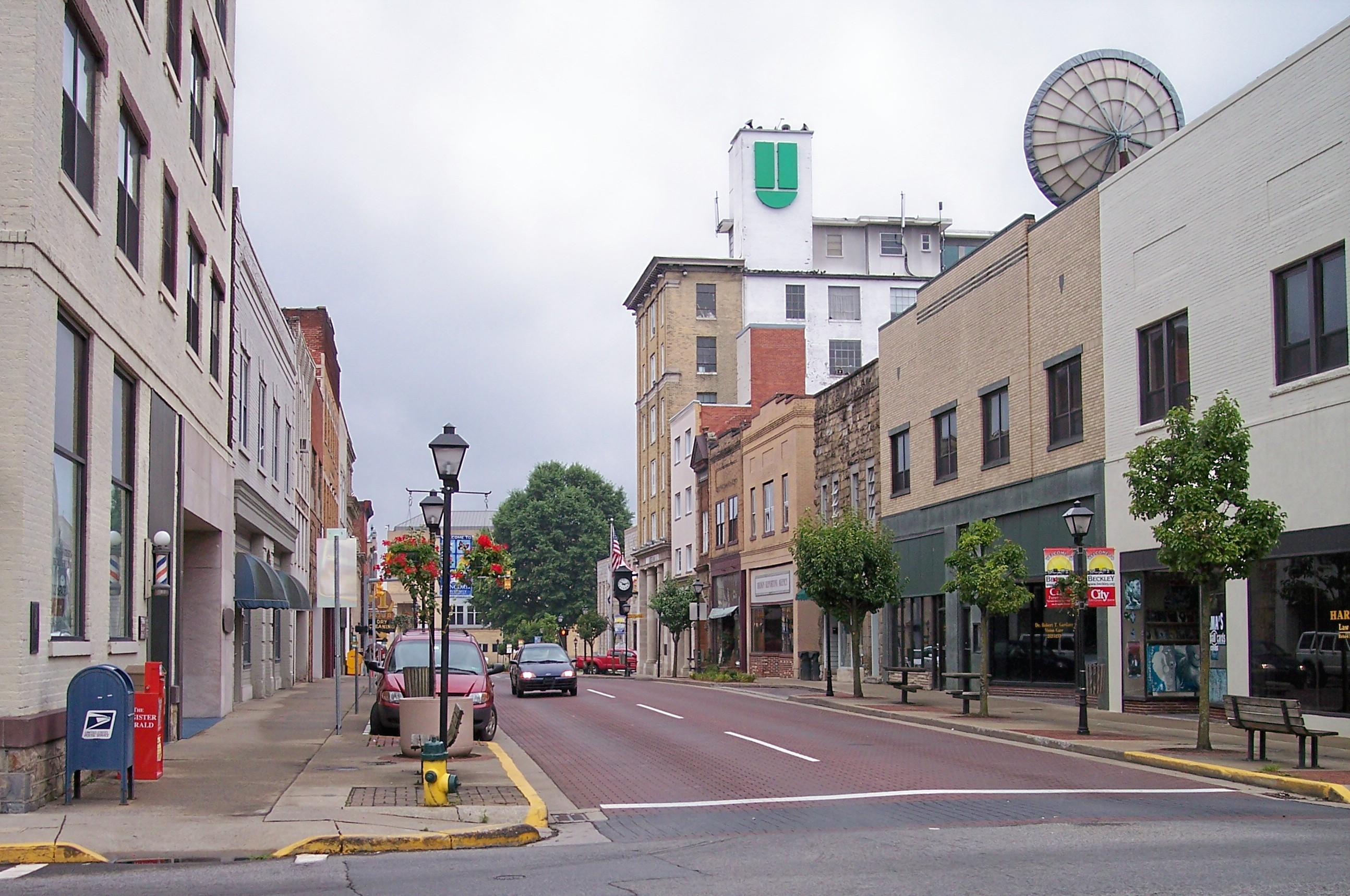 Main Street as viewed from Kanawha Street in downtown Beckley, West Virginia.